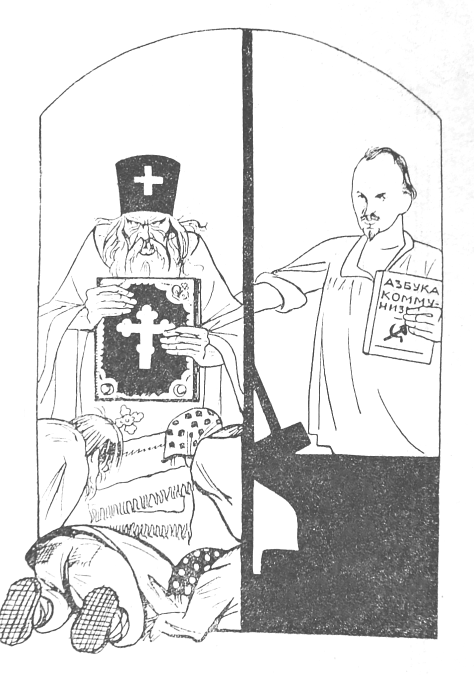 Nikolai Bukharin with “Communist Bible” (ABC of Communism).